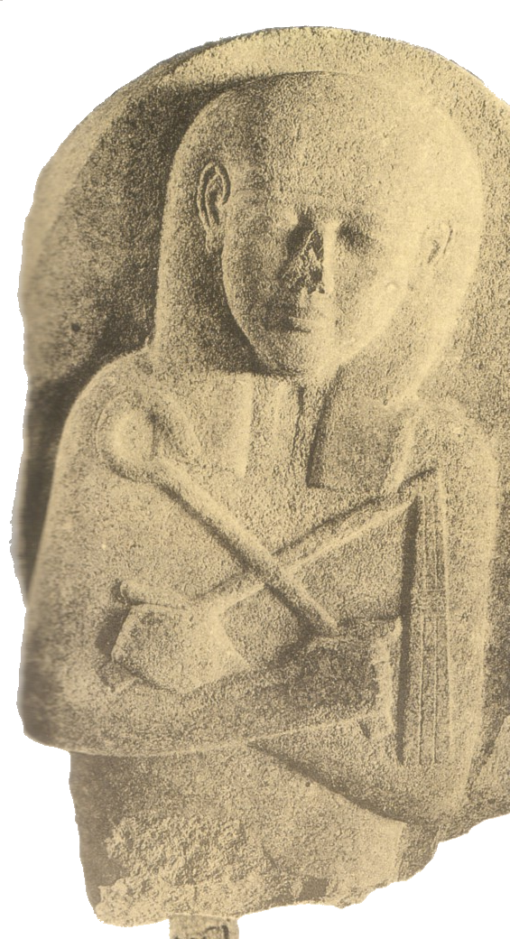 Fragment of granite sarcophagus from tomb of Khaemwaset (QV44), now in Museo Egizio, Turin